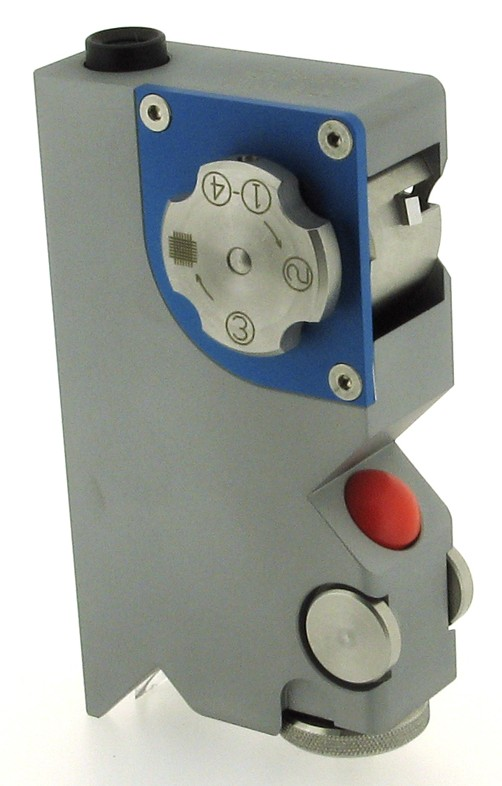 TQC Super PIG